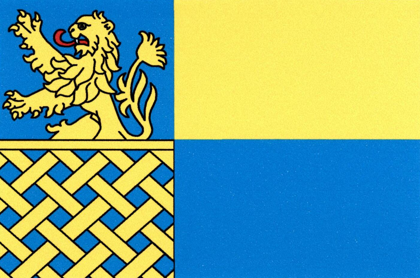 Municipal flag of Lovosice town, Czech Republic.